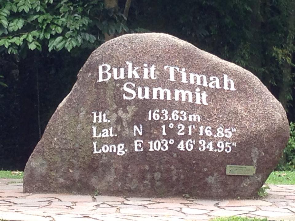 Rock marking the summit of Bukit Timah at Bukit Timah Nature Reserve in Singapore